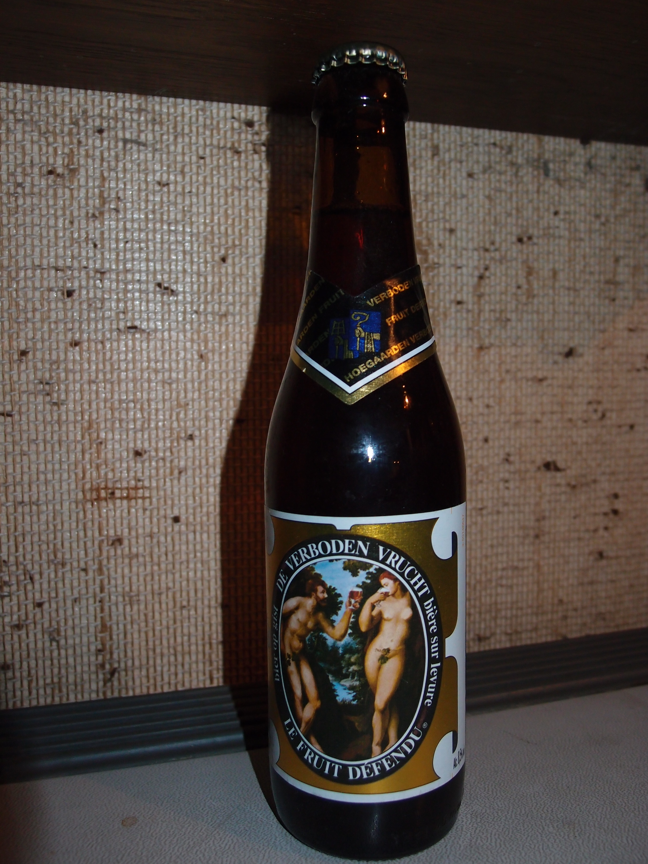 "De Verboden Vrucht" - belgische Biermarke Datum: 19.12.2011 Urheber: M. Pfeiffer alias Benutzer:Gordito1869 Quelle: privates Fotoarchiv des Urhebers